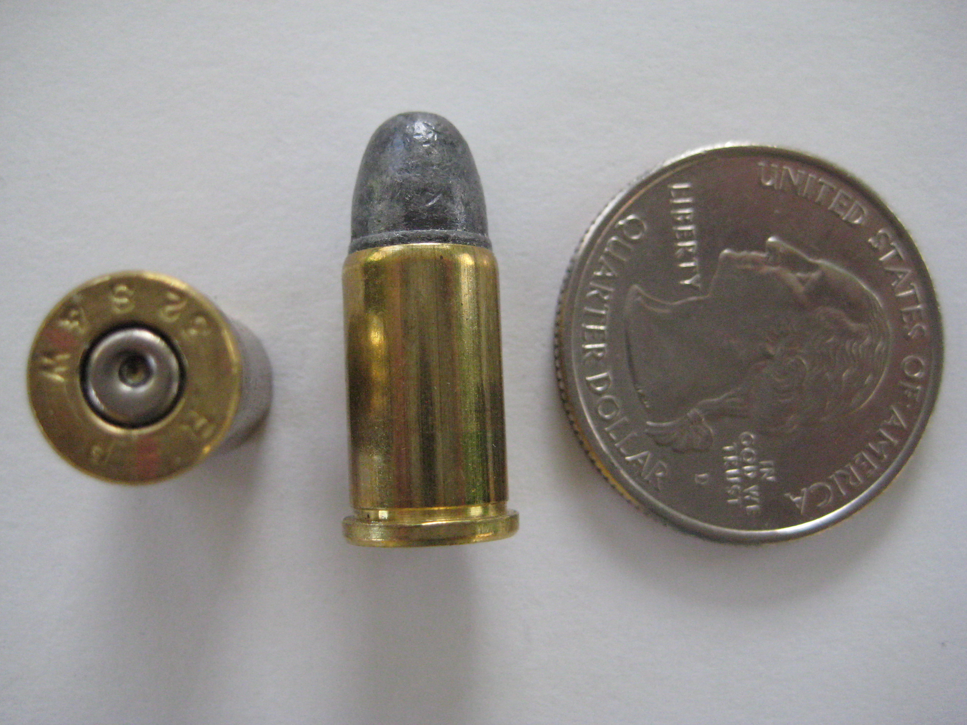 Picture of a .32 S&W revolver cartridge, and empty brass showing headstamp.